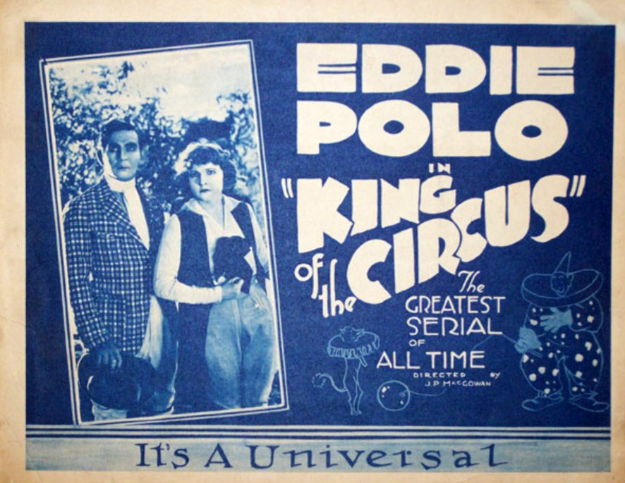 Lobby card for the American film serial King of the Circus (1920) with Eddie Polo.